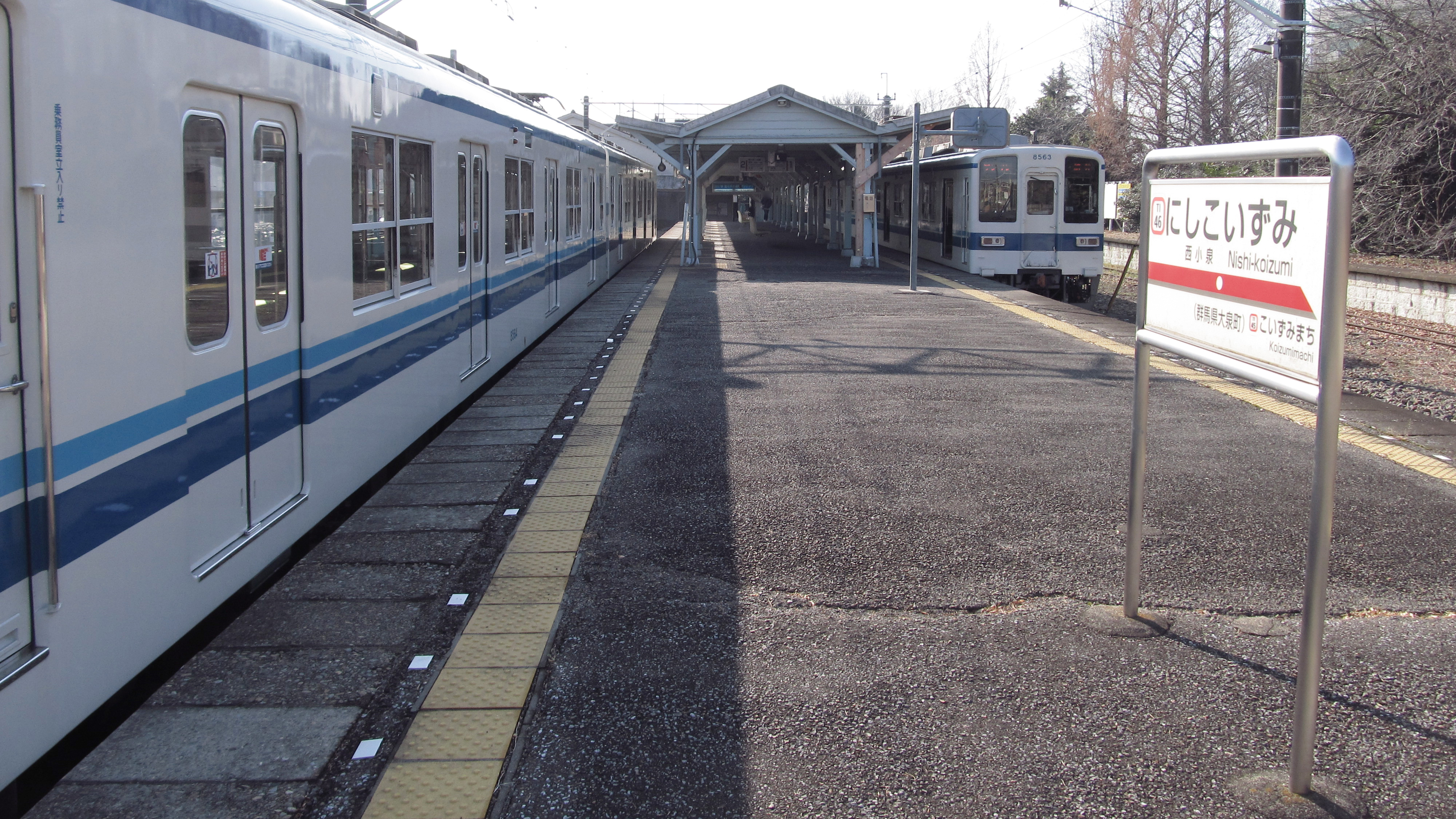 The platform at Nishi-Koizumi Station on the Tobu Railway Koizumi Line in Ōizumi town, Gumma prefecture, Japan